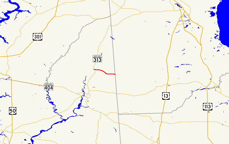 Map of Maryland Route 314